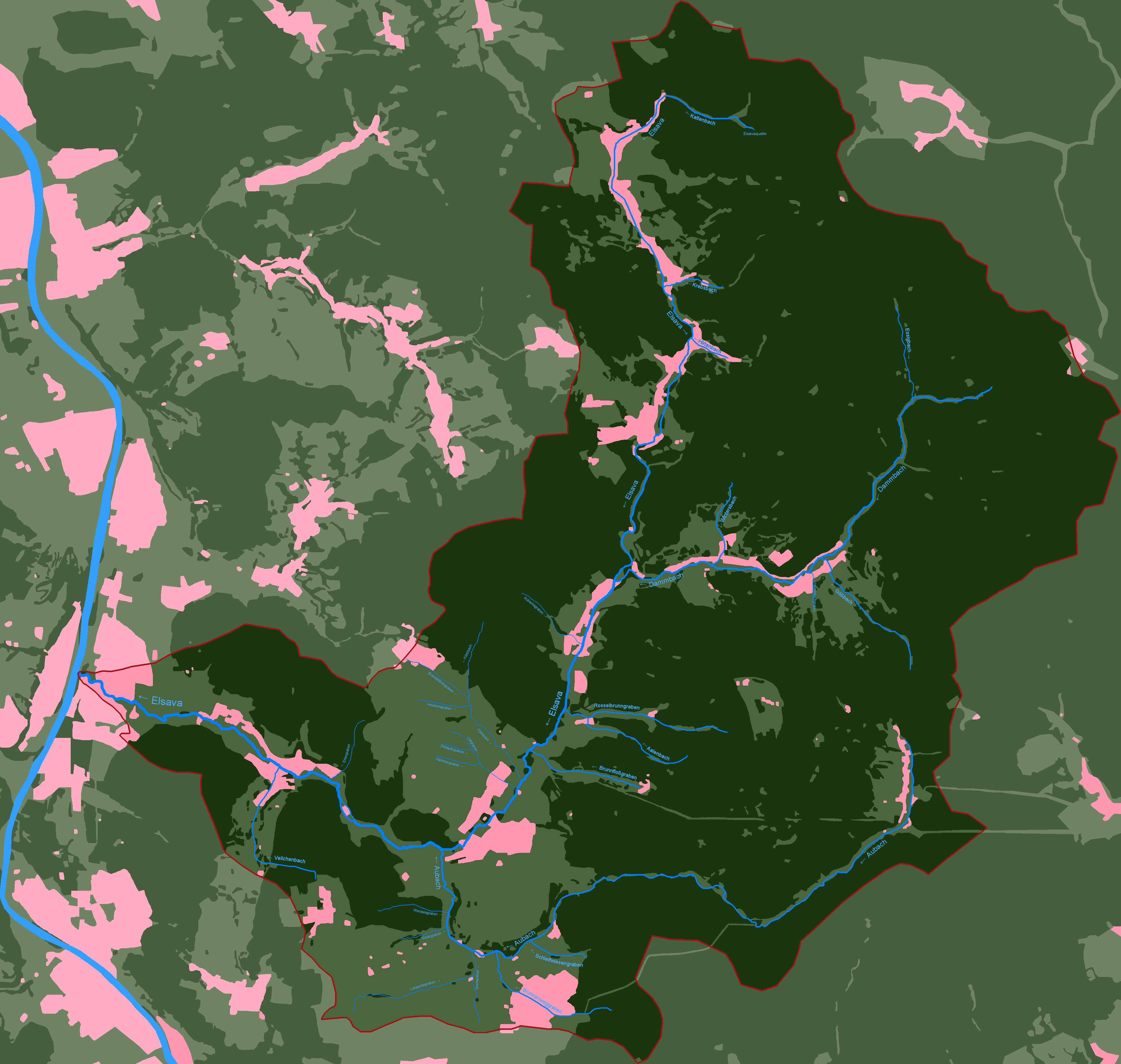 Streams in the drainage system of the Elsava: the file shows stream in the drainage system of Elsava which are listed in the "List of streams in the drainage system of Elsava" in the German Wikipedia. For questions and suggestions please contact the author. Grassland, Meadow Settlement area Drainage basin Forest Body of water